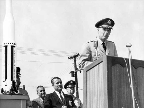 Army/NASA Transfer Ceremony. Man in uniform at a lecturn. Wernher von Braun behind at left.